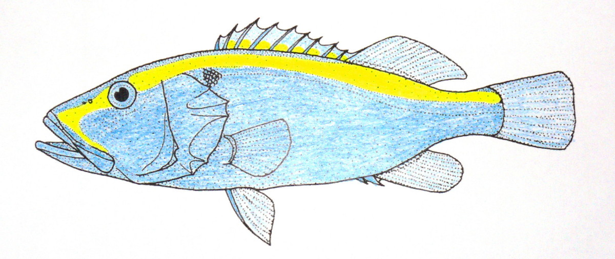 goldribbon soapfish